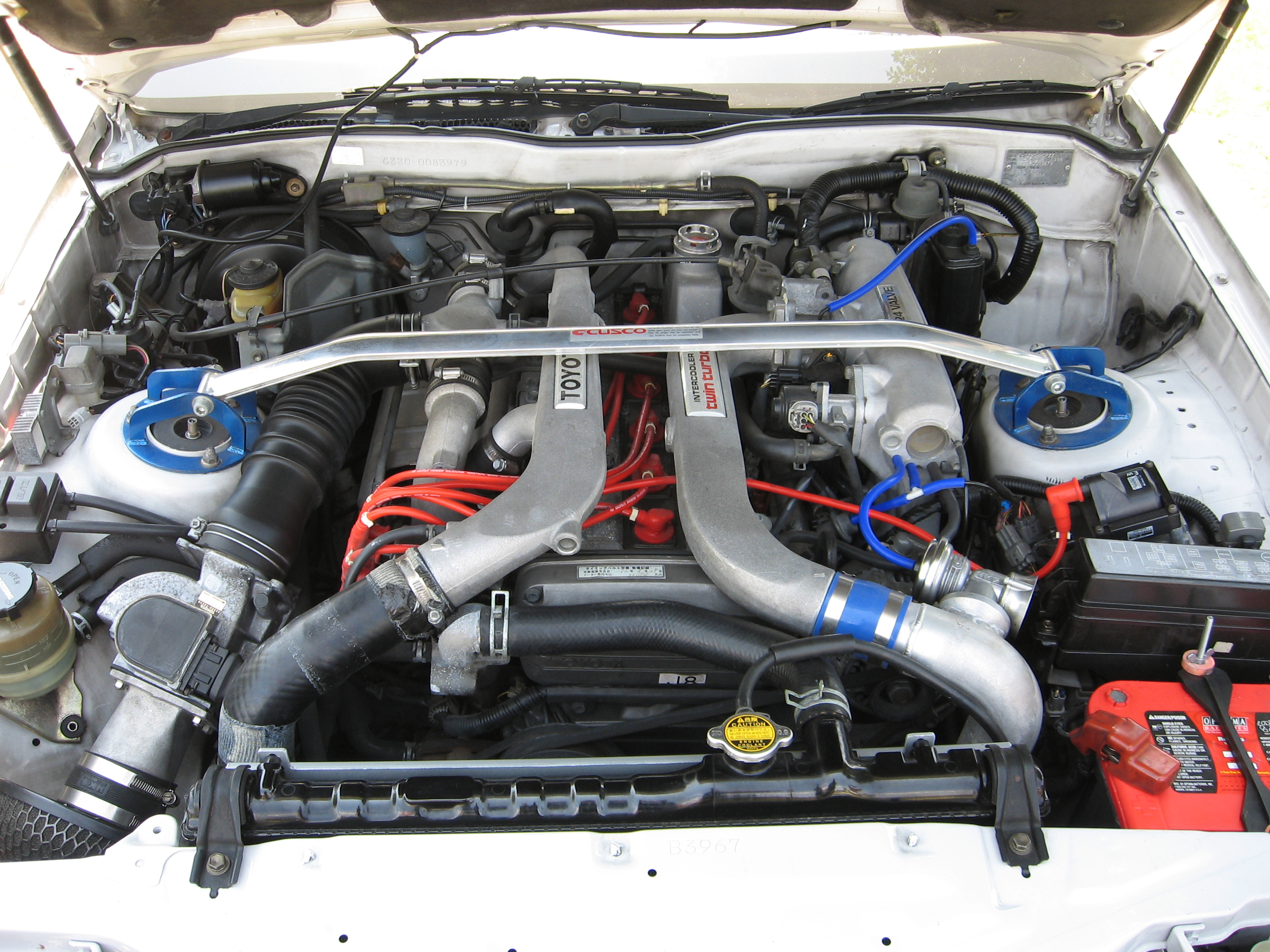 Toyota 1G-GTE late version with air-to-air intercooler in a GZ20 Soarer at Toyotafest 2007.